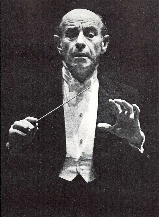 Photograph of Erich Leinsdorf at the University of Michigan in Ann Arbor